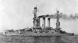 The Battleship USS Maine (BB-10), Public domain photo from history.navy.mil